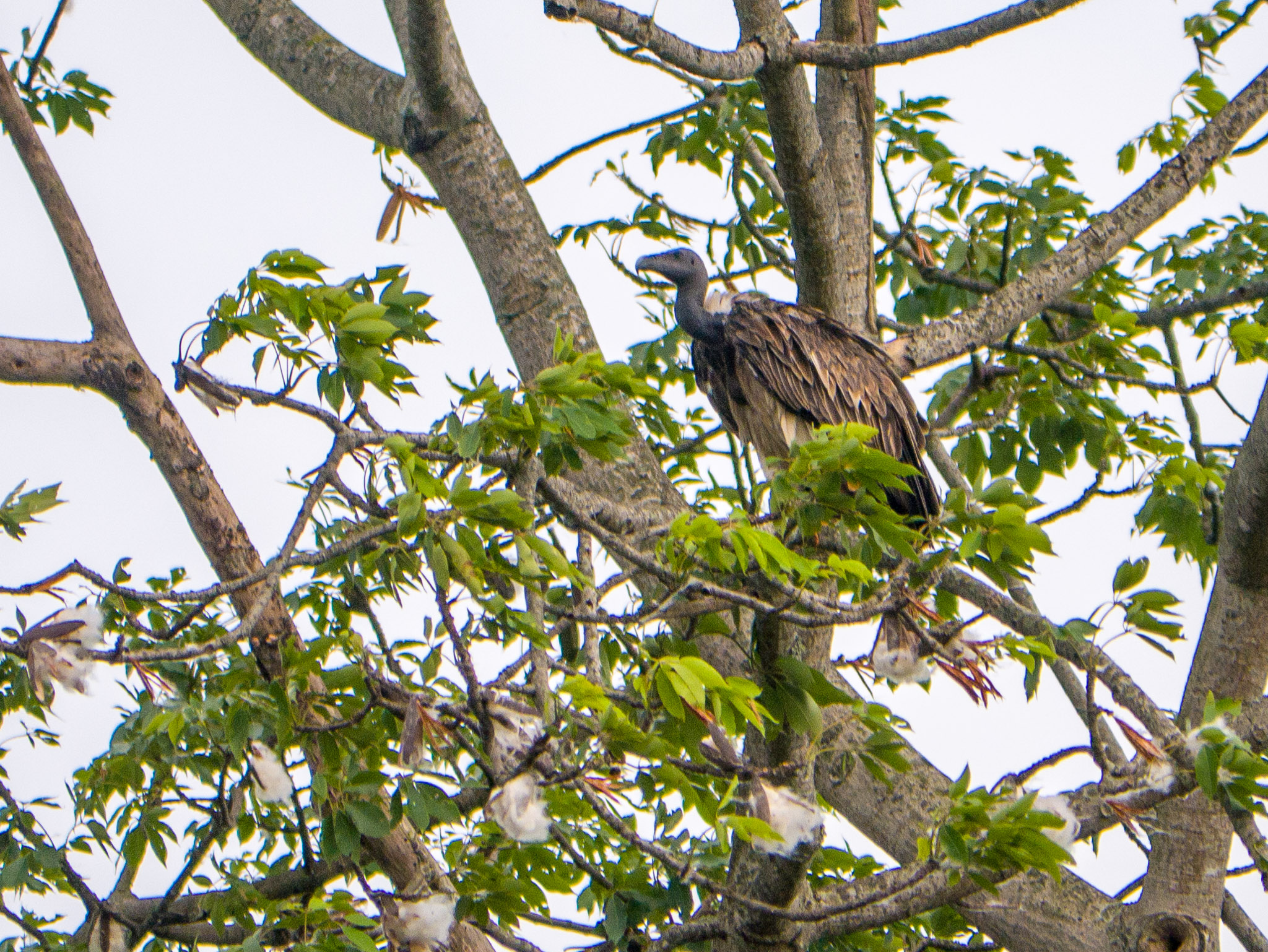 Slender-billed Vulture (Gyps tenuirostris), Mishmi Hills, India